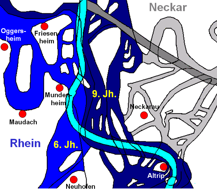 Historic Rhine river at the mouth of the Neckar river